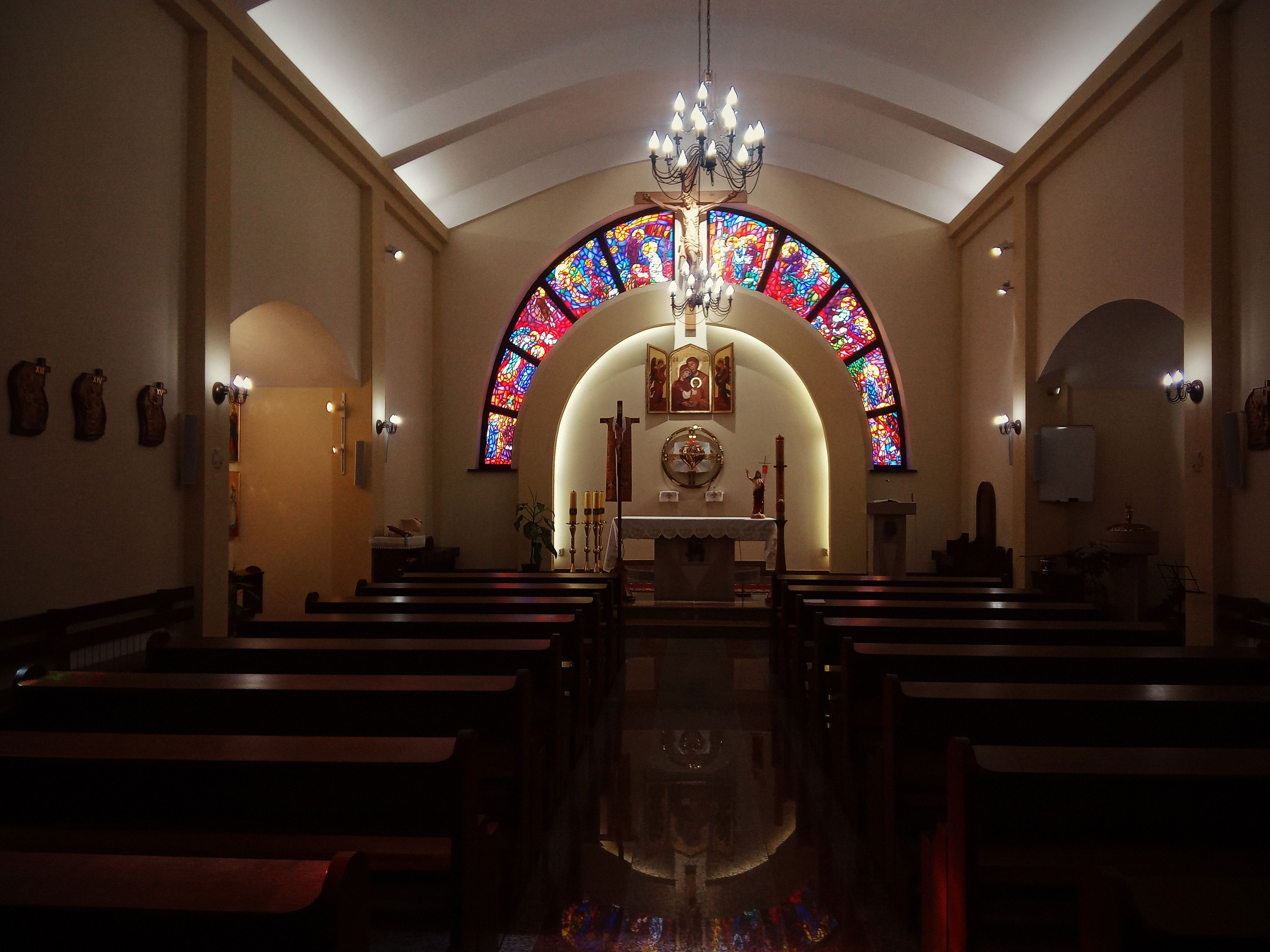 Parafia Świętej Rodziny w Chromtau - nawa główna